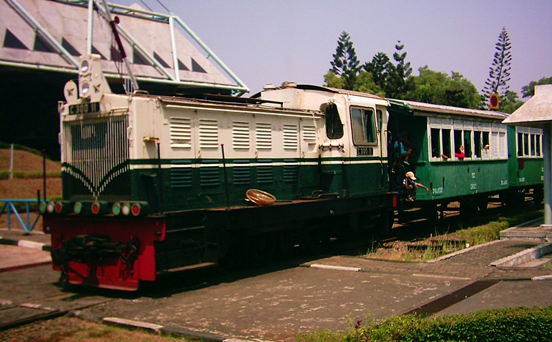 Diesel hydraulic loco C 300 11 from Indonesia